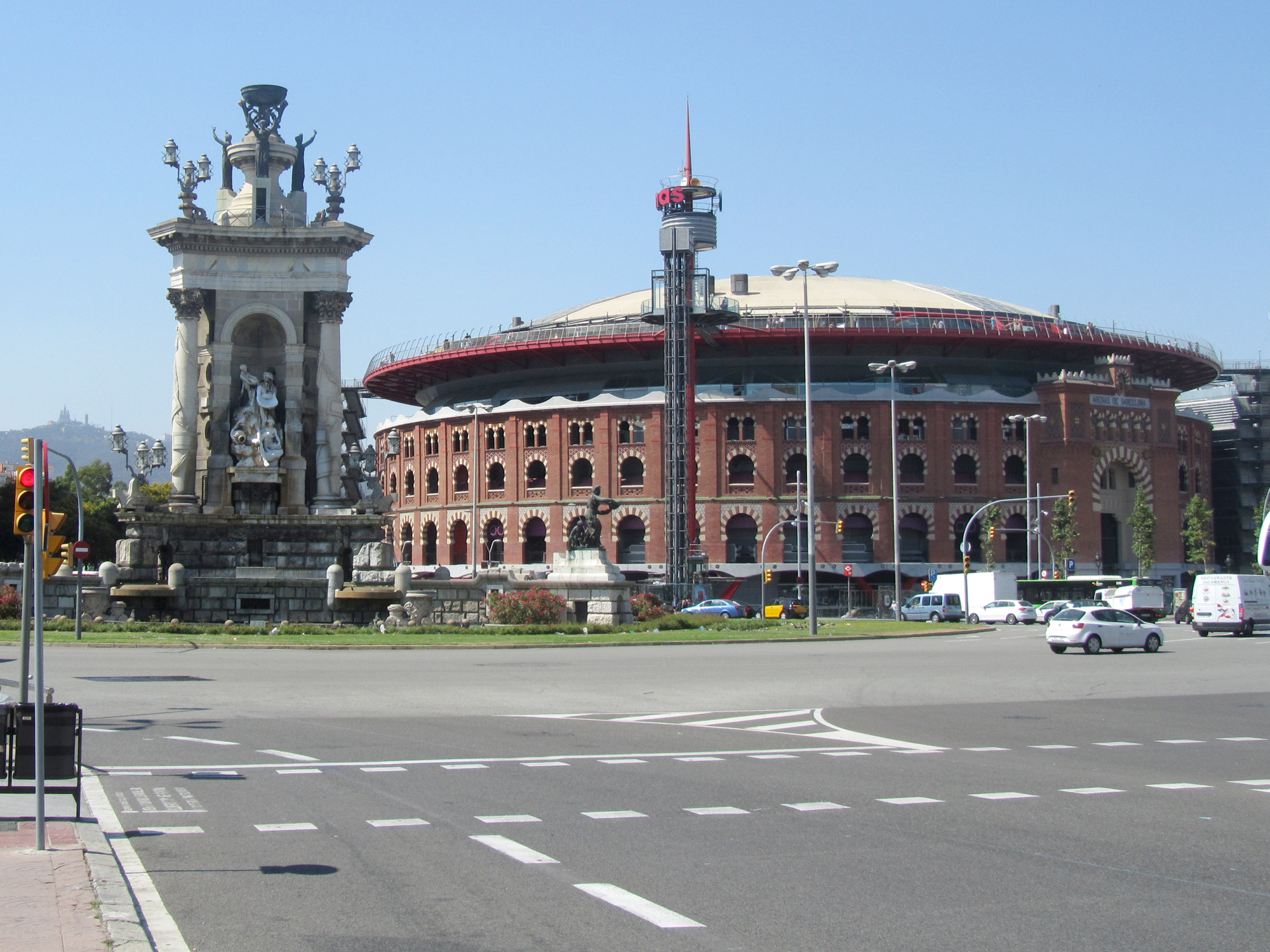 Plaça d'Espanya with former bullring, Barcelona